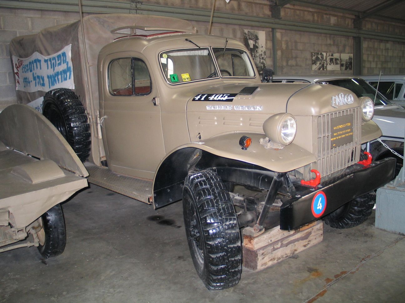 Description: Fargo truck in Batey ha-Osef Museum, Tel Aviv, Israel. 2005. The vehicle, produced in 1942, was in service with the IDF from 1957 to 1993. Source: Photo by me, User:Bukvoed.